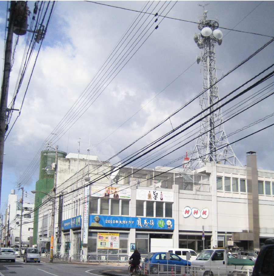 NHK Kochi.